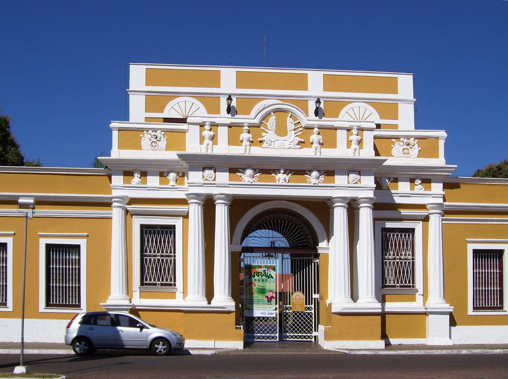 Sesc Arsenal, a cultural center in Cuiabá, Mato Grosso, Brazil. In the past, was a war arsenal.